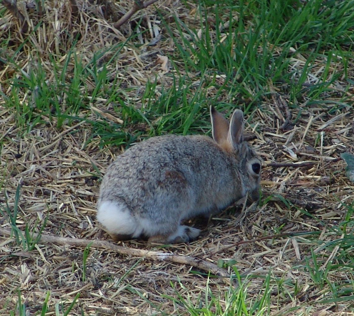 Mountain Cottontail (Sylvilagus nuttallii) in Denver Zoo (on grounds)